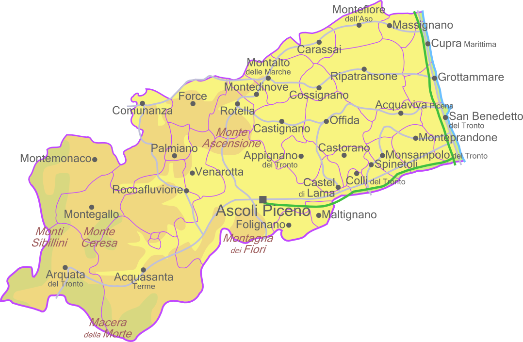 Map of the Province of Ascoli Piceno, Italy